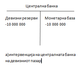 Central bank's FX intervenion